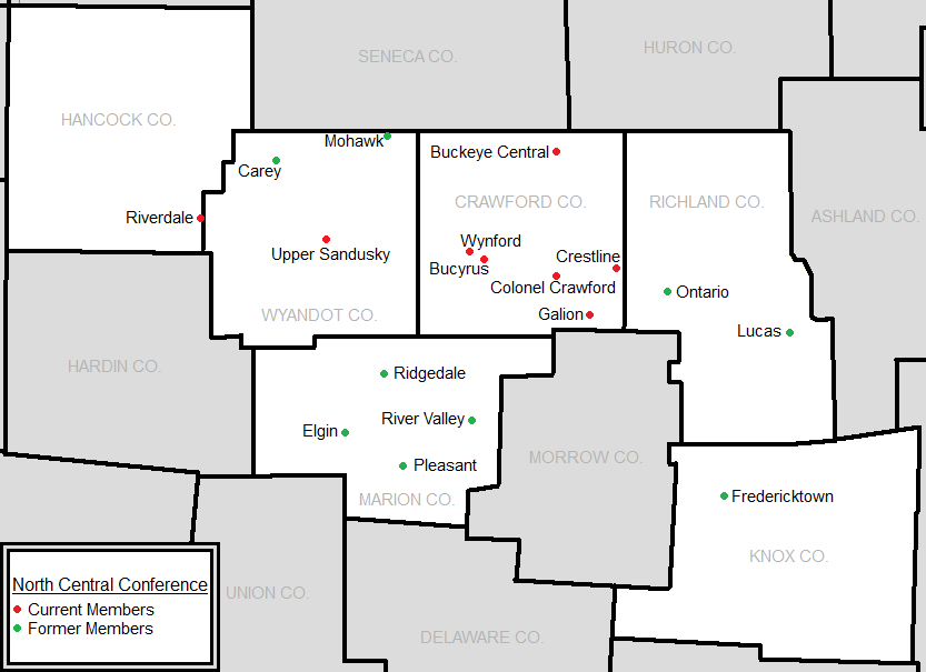 Map taken from U.S. Census, modified by me to show school locations.